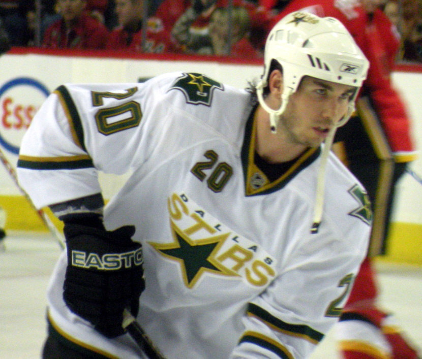 Dallas Stars forward Brian Sutherby during warm-up prior to a National Hockey League game against the Calgary Flames, in Calgary.